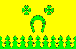 Old flag of Loodna Parish (1995–2002).